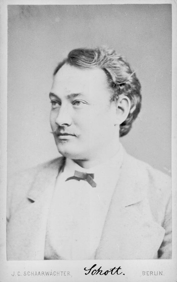 German opera songer Anton Schott (1846—1913)